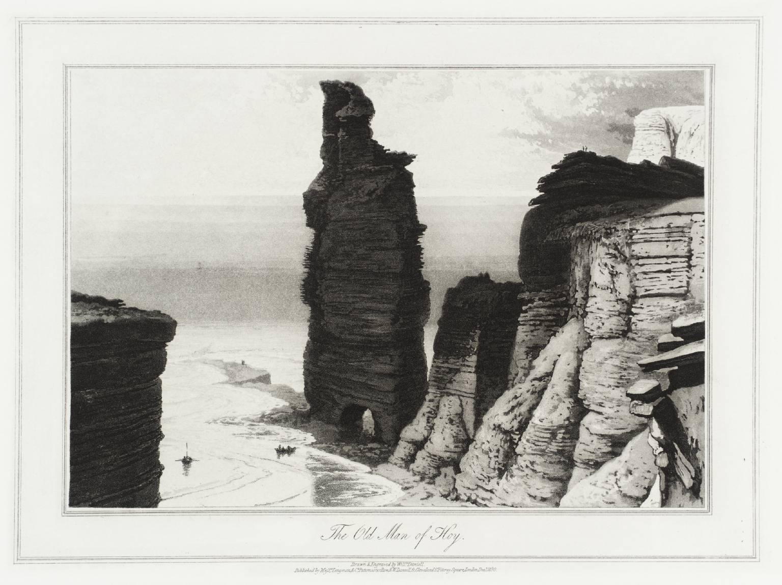 Daniell Oldman (1769‑1837), painting the Old Man of Hoy some time around 1817.